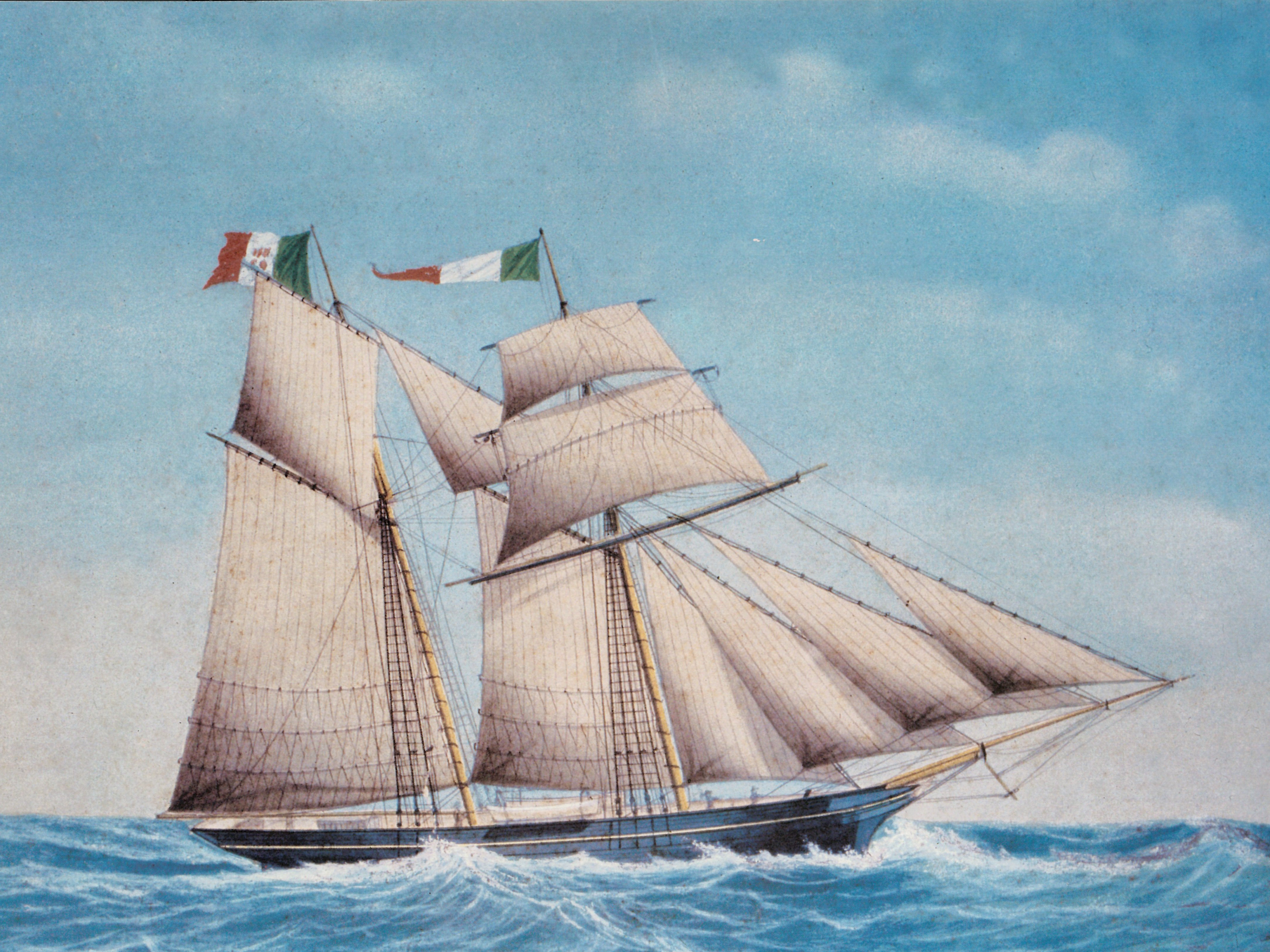 Barquentine "Argo" of the Italian Royal Navy, dismissed in 1863 and decommissioned in 1865, Anonymous, watercolor on cardboard.